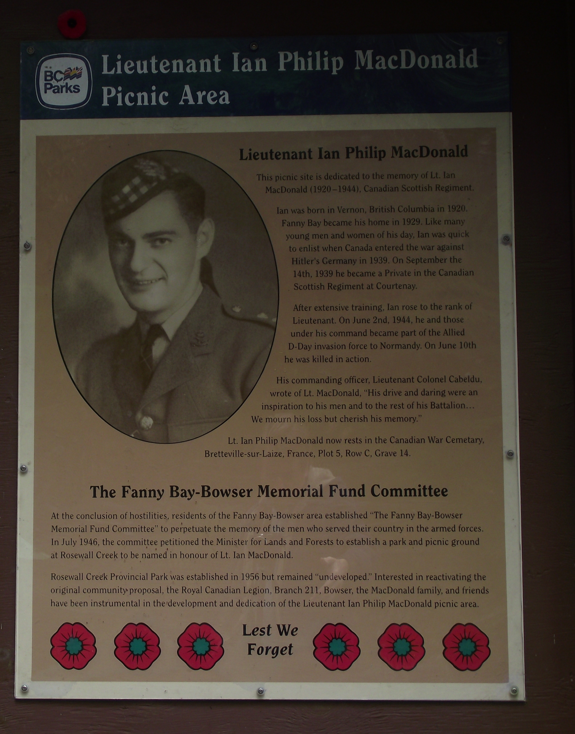 Plaque describing BC Parks' Lieutenant Ian Philip McDonald Picnic Area at Rosewall Creek Provincial Park